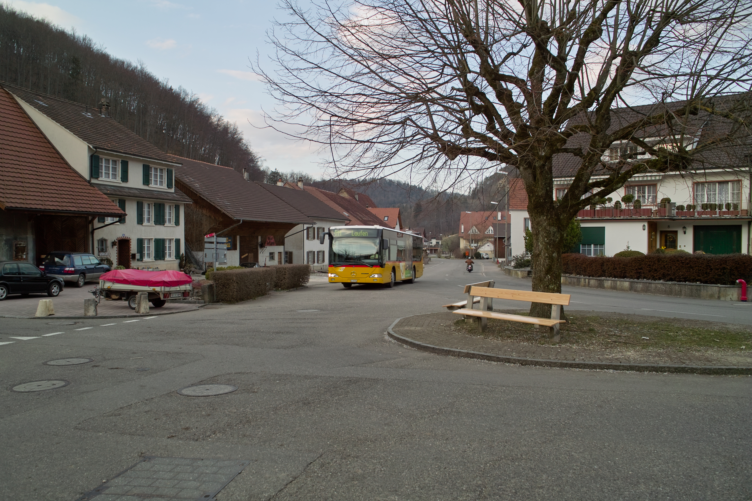 Meltingen, Canton of Solothurn, Switzerland. Arriving "Postauto" to Laufen.